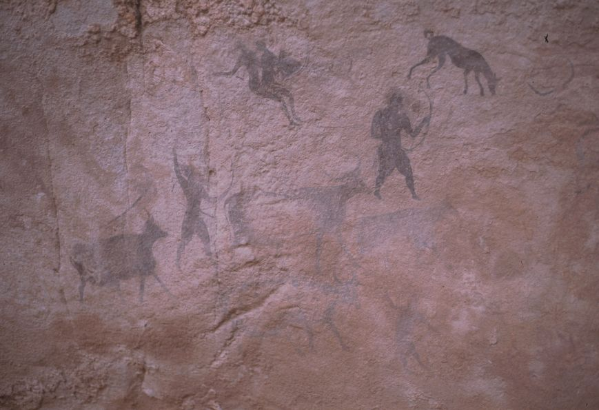 Anthropomorphic figures and animals: oxen and dog.